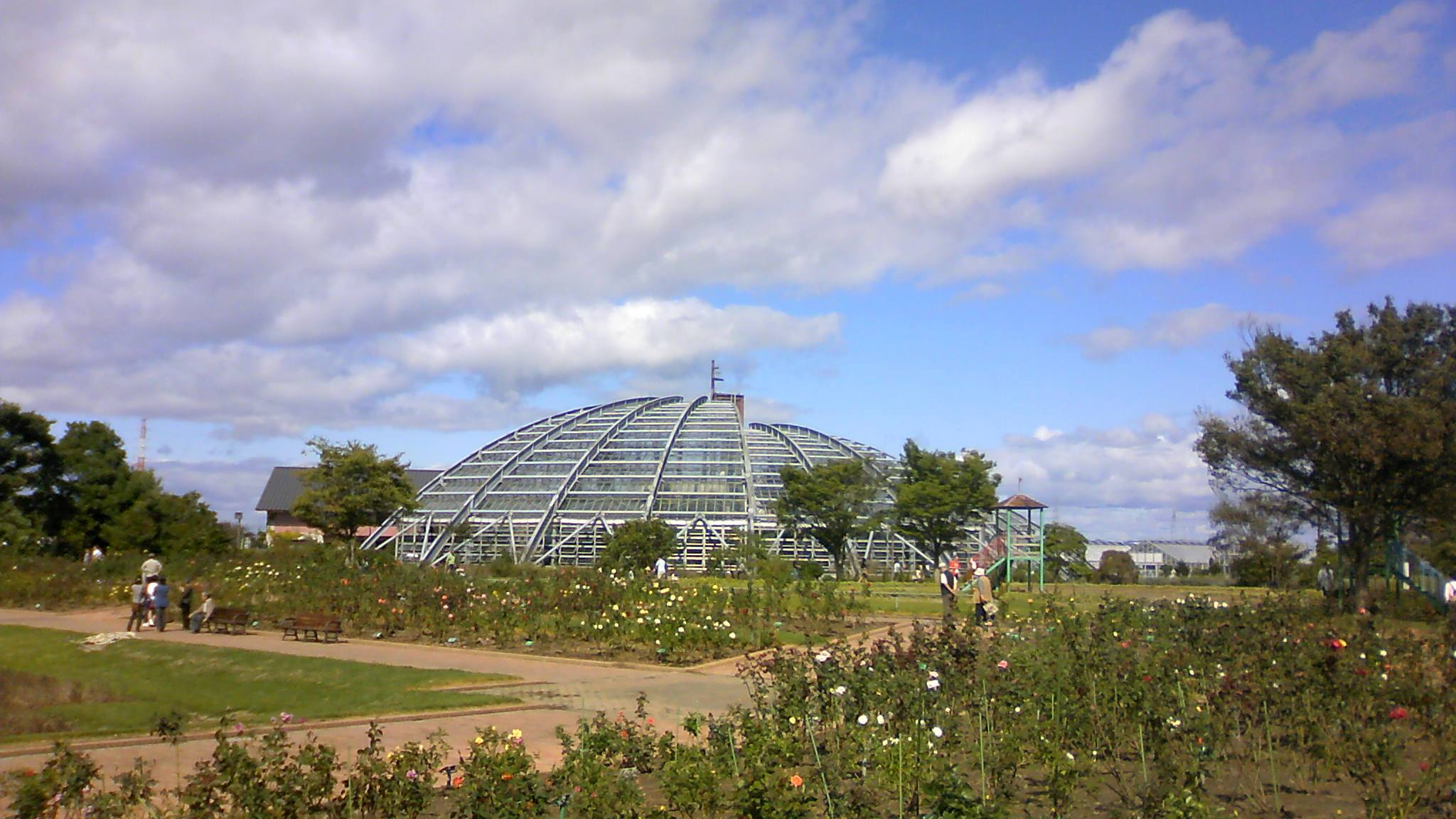 Sendai City Agriculture & Horticulture Center